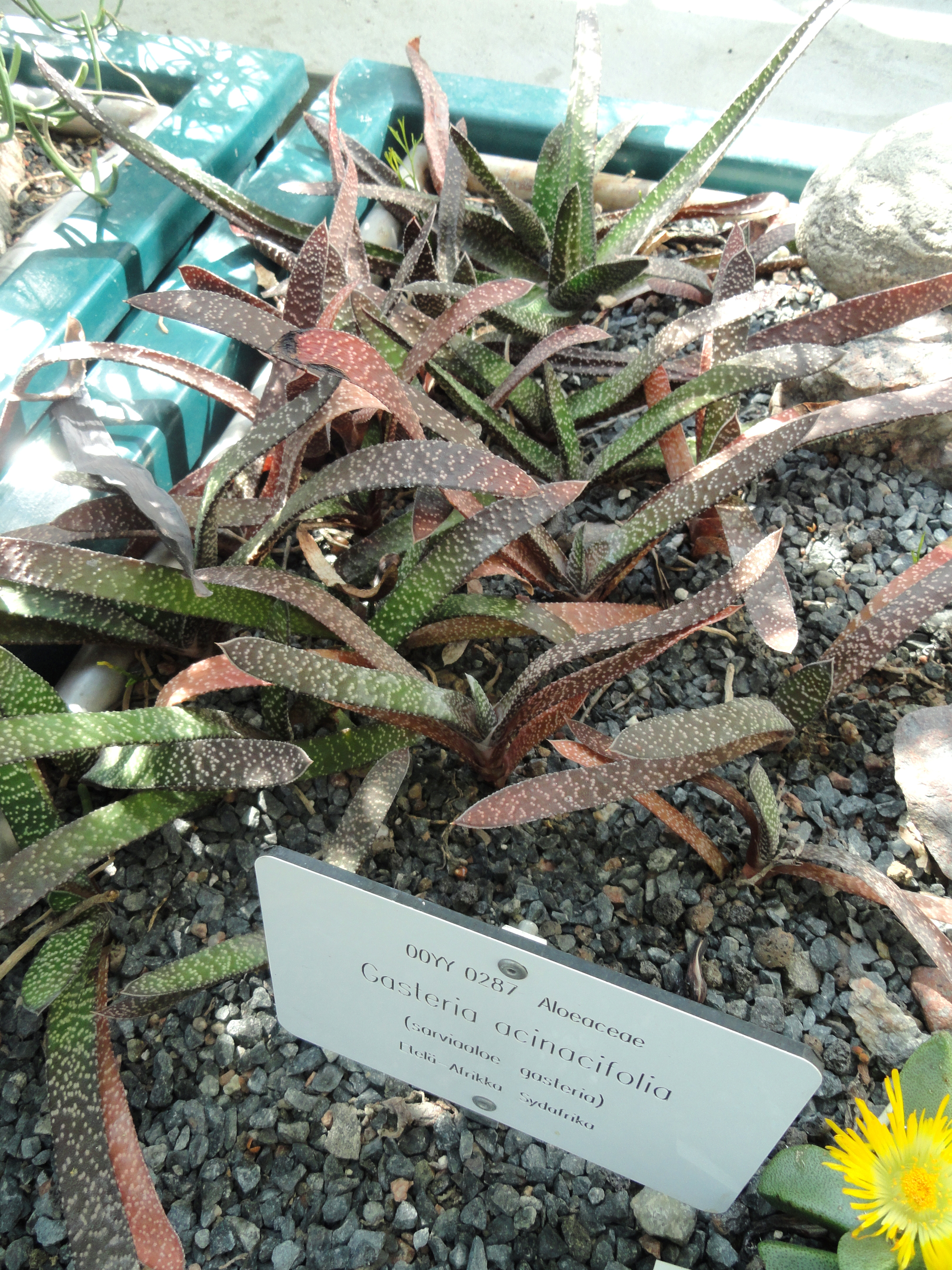 Botanical specimen. The University of Helsinki Botanical Garden at Kaisaniemi